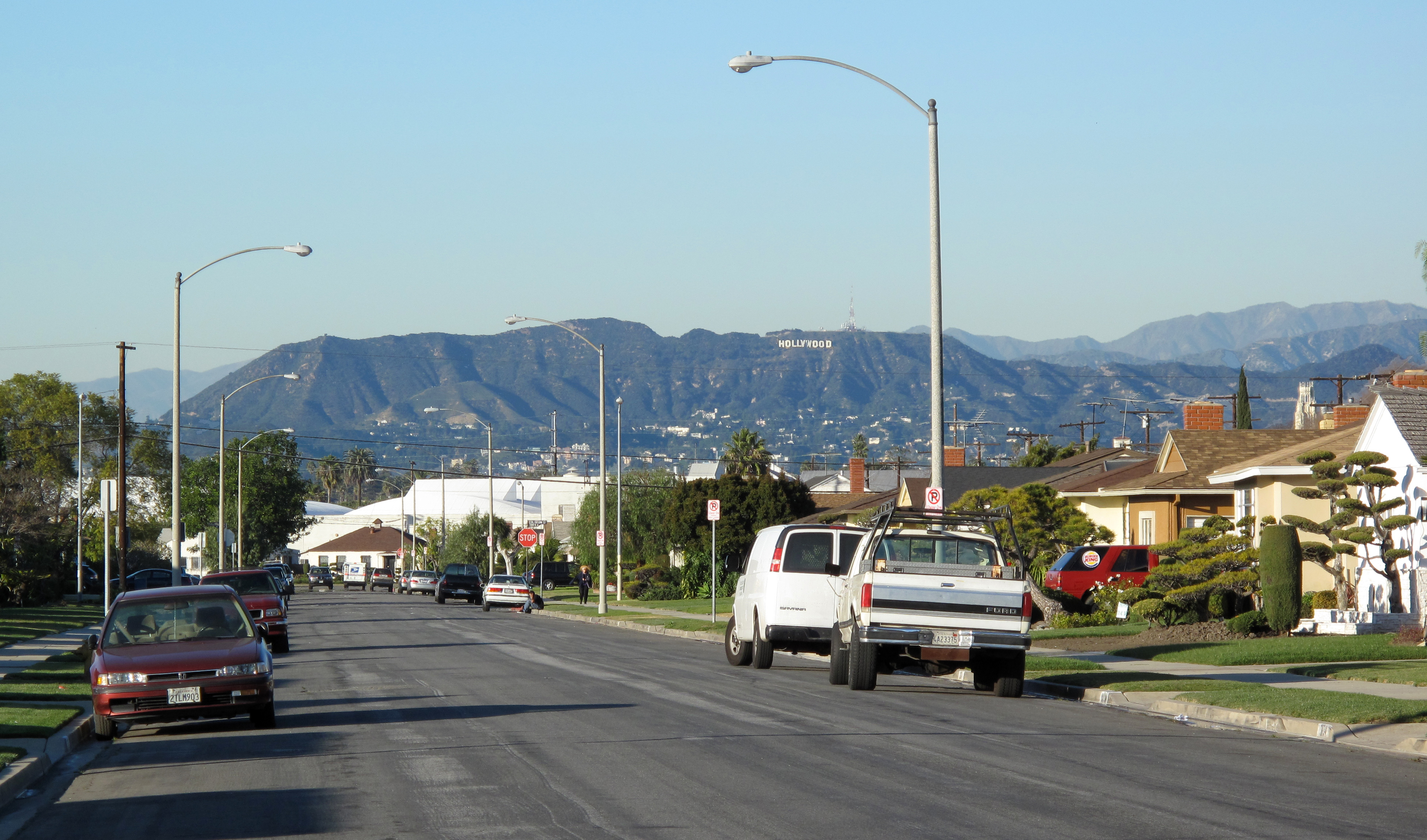 The Hollywood Hills, the Hollywood Sign, and part of Griffith Park. The view is north from the 3800 block of South Norton Avenue, in Jefferson Park neighborhood of Los Angeles, California.